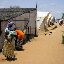 The Doctors Without Borders (MSF)feeding center in Maradi, Niger. During the 2005 Niger famine